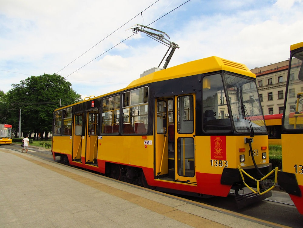 Konstal 105Nbe 1383, Warsaw, 2016